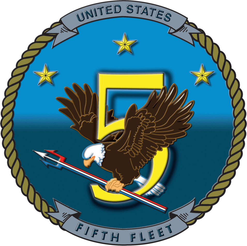 United States Fifth Fleet insignia.